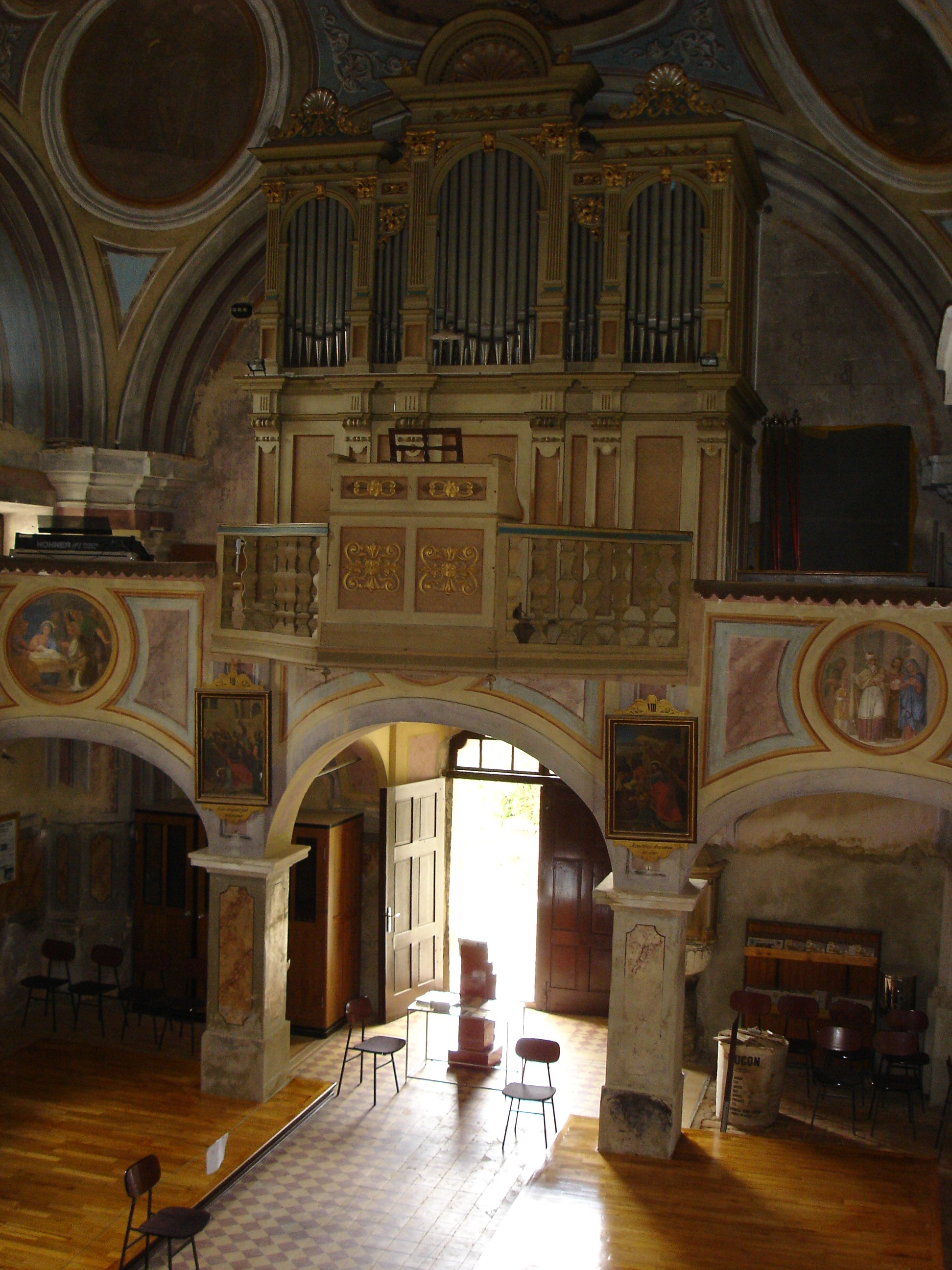 St. Michael's Parish Church (Pišece)